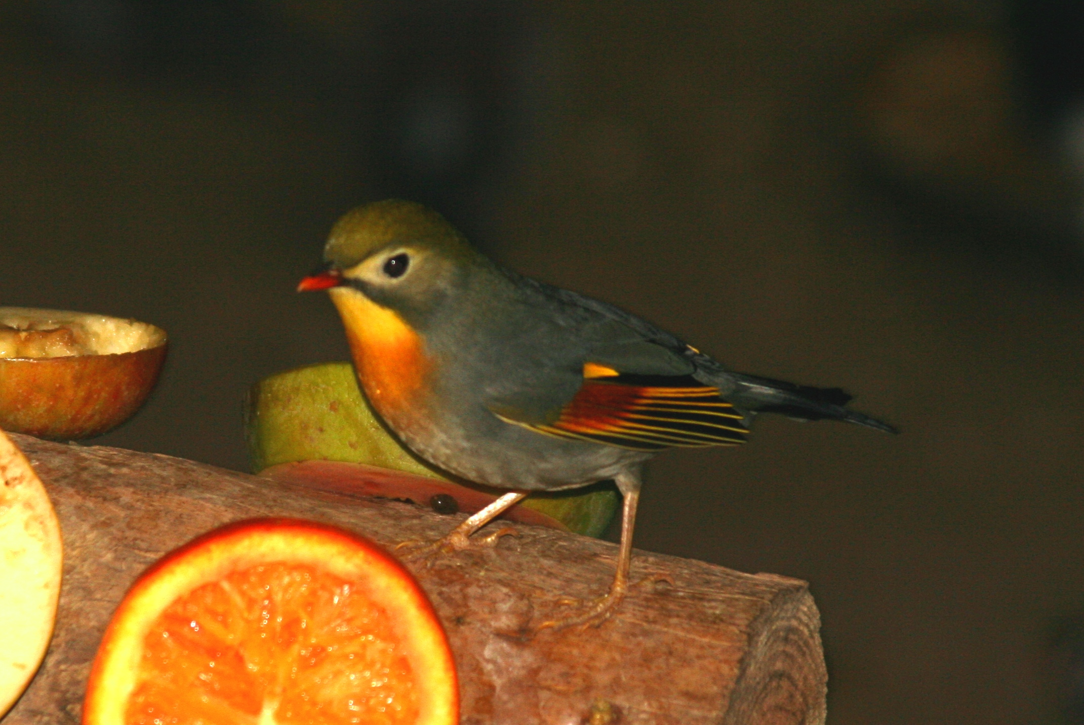 Leiothrix lutea. Photo by Duncan Wright taken in Chester Zoo.